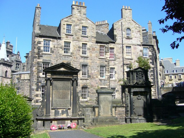 Martyrs' Monument, Greyfriars Kirkyard The Monument commemorates the Covenanters executed after the Restoration in 1660. The Covenant, signed in the kirkyard and then throughout Scotland in 1638, was a protest against Charles I's attempt to impose episcopacy and an Anglican liturgy on the Scottish Kirk, based on a presumed right to dictate church organisation and form of worship by analogy with his position as Head of the Church of England. 1351443